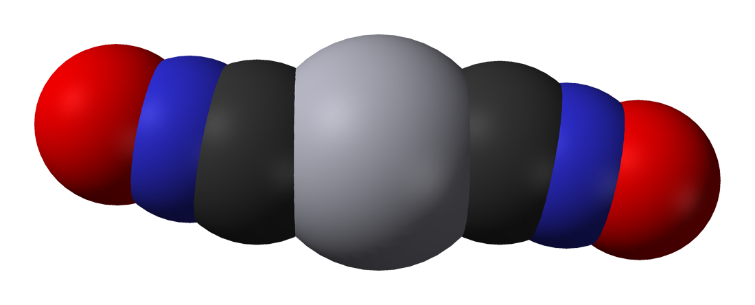 Space-filling model of a mercury(II) fulminate molecule, Hg(ONC)2, as found in the crystal structure. X-ray diffraction data from W. Beck, J. Evers, M. Göbel, G. Oehlinger and T. M. Klapötke (2007). "The Crystal and Molecular Structure of Mercury Fulminate (Knallquecksilber)". Zeitschrift für anorganische und allgemeine Chemie 633 (9): 1417-1422.